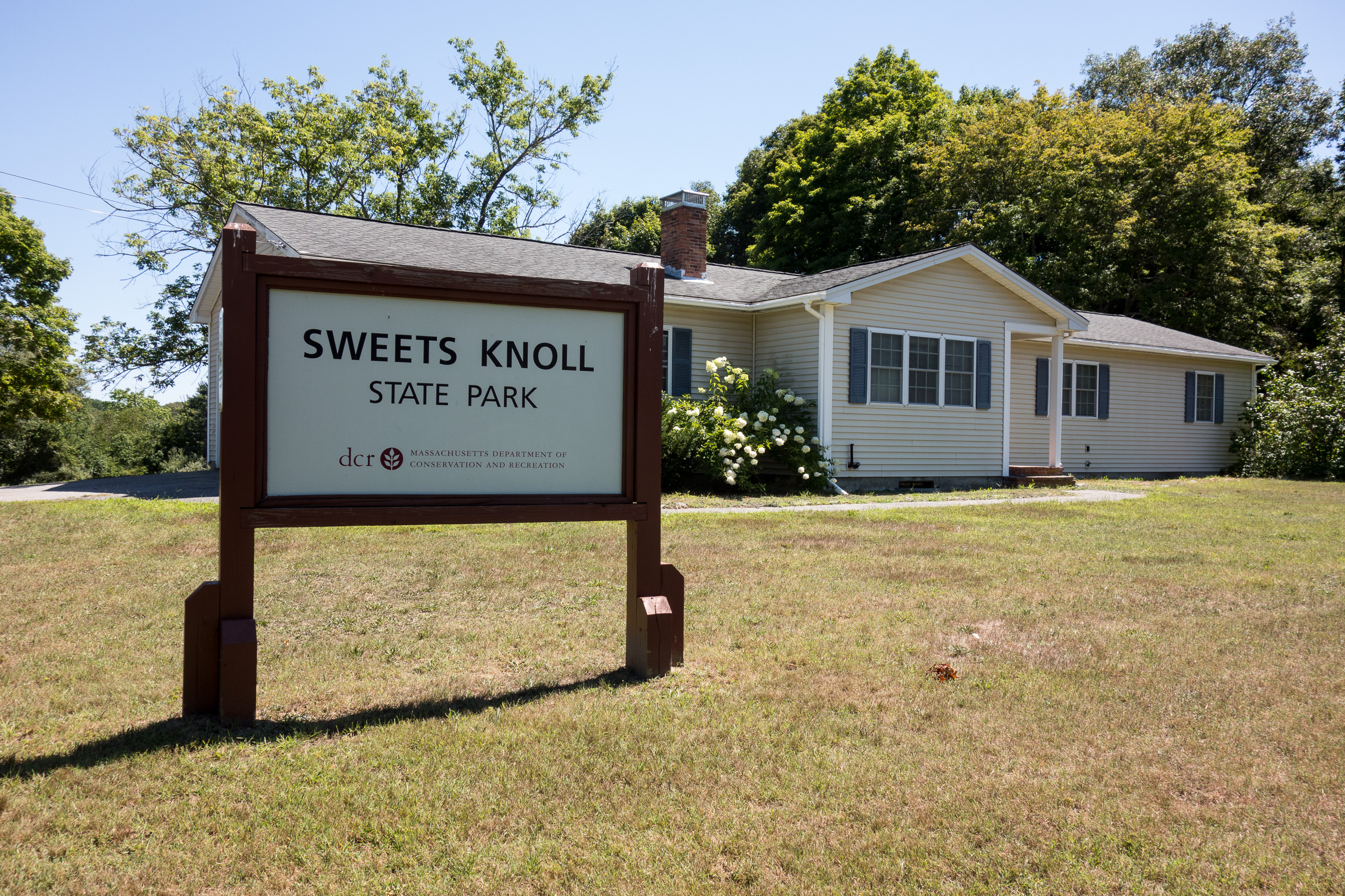 Sweets Knoll State Park, Dighton, Massachusetts. Formed 2010.